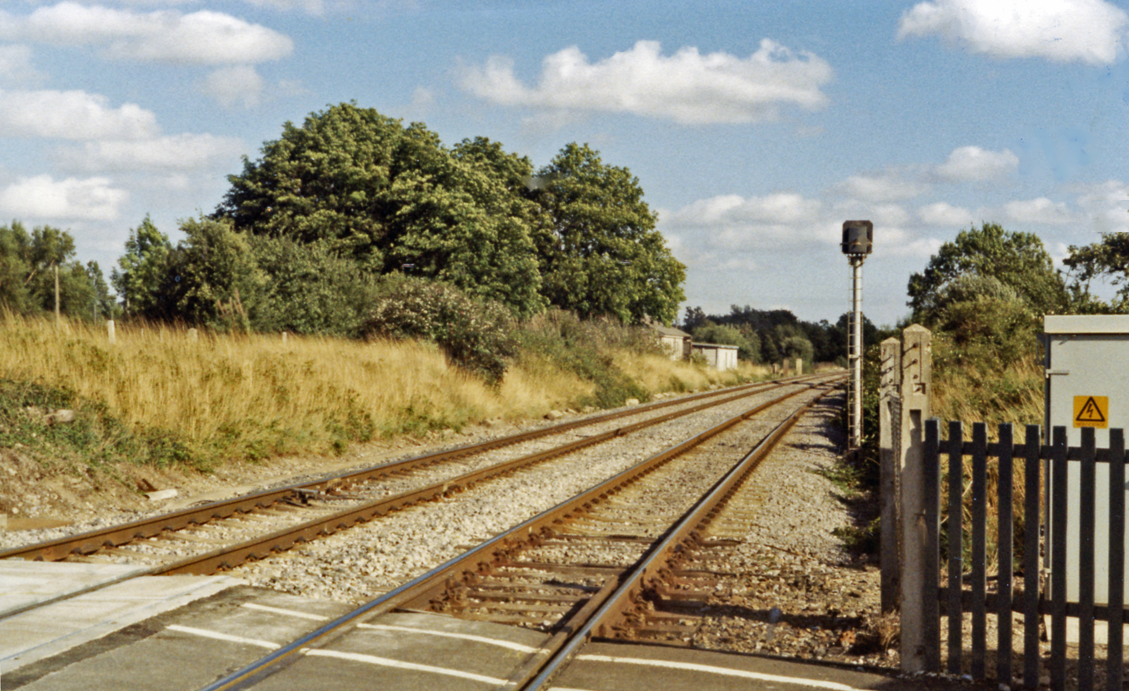 Site of Codford station, 1984, View SE, towards Salisbury: ex-GWR Westbury - Salisbury secondary main line. The line is still an important link, but this station was closed to passengers 19/9/55 and goods 10/6/63. Nothing seems to be left.